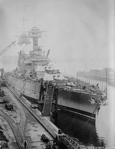 USS Colorado (BB-45)